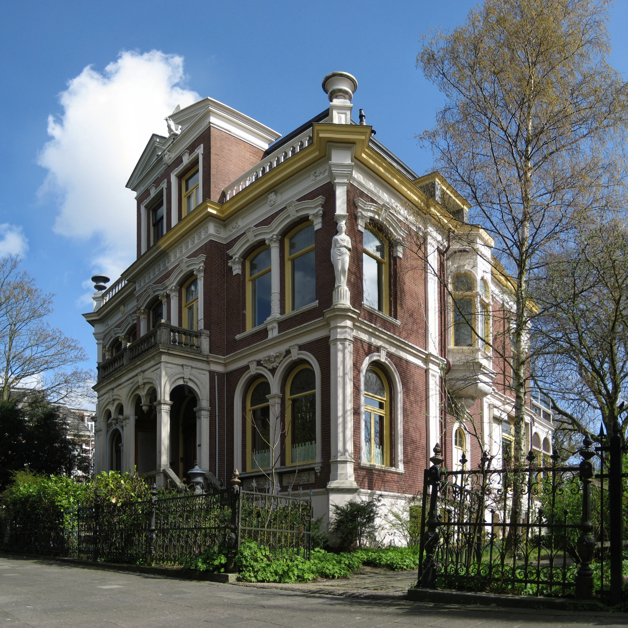 Villa (1897) in the Dutch city of Groningen.